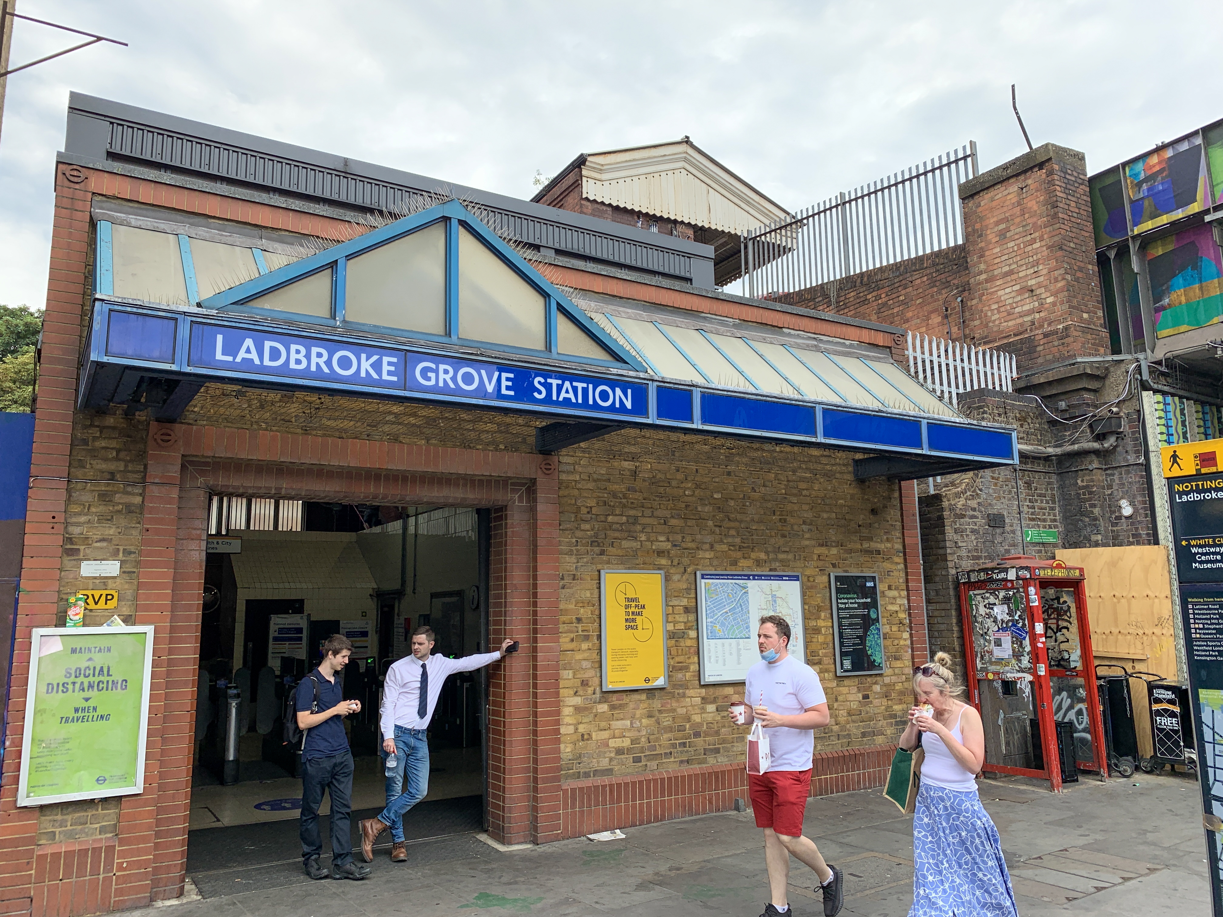 Ladbroke Grove station building. Taken during my Circle Line Tube Walk.